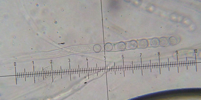 Pseudoplectania nigrella (Pers.) Fuckel